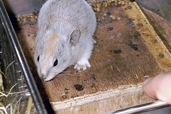 A young Afghan pika (Ochotona rufescens) at the IPBS in Toulouse (France)